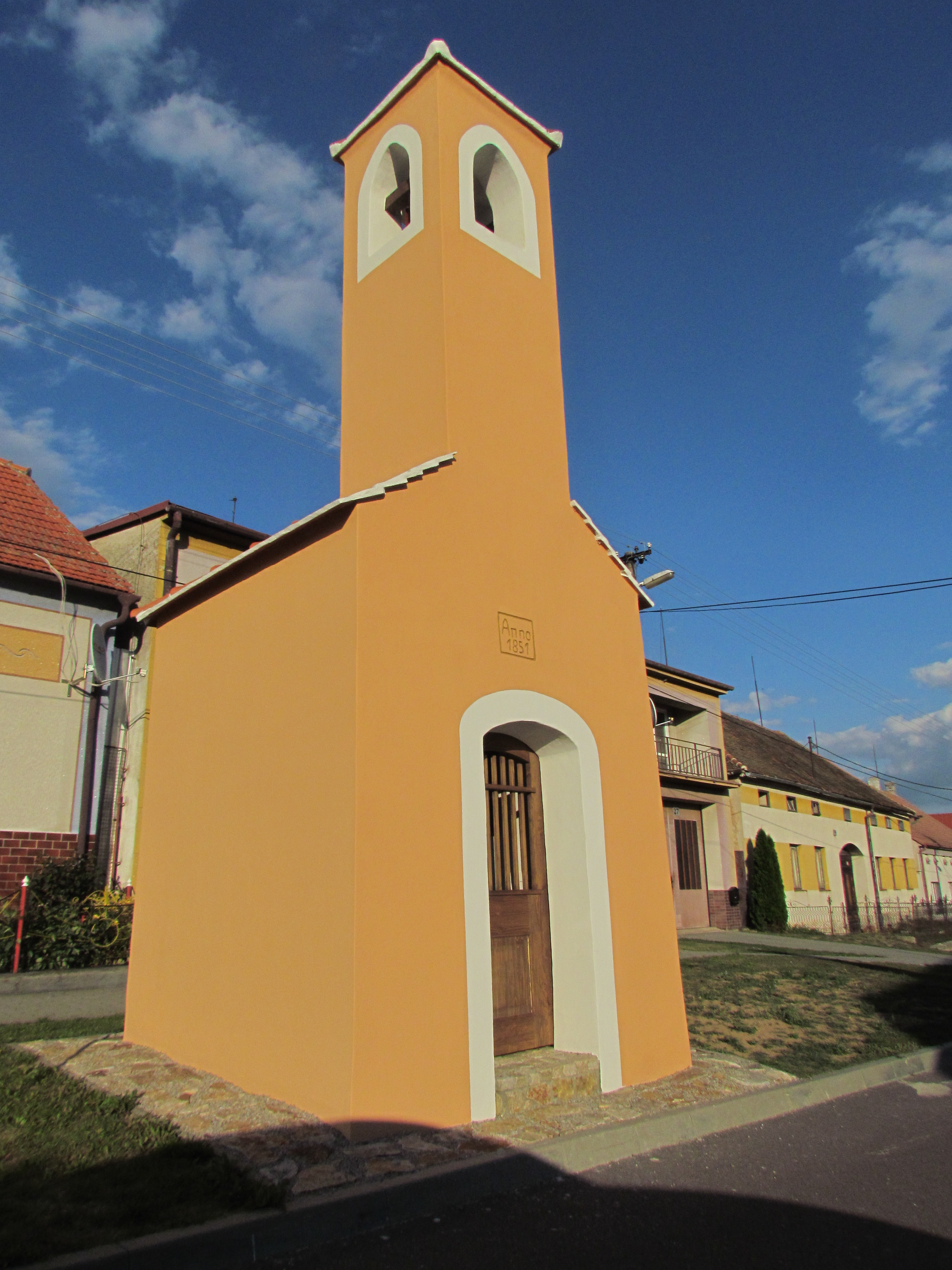 Bell tower in Zvěrkovice, Třebíč District.